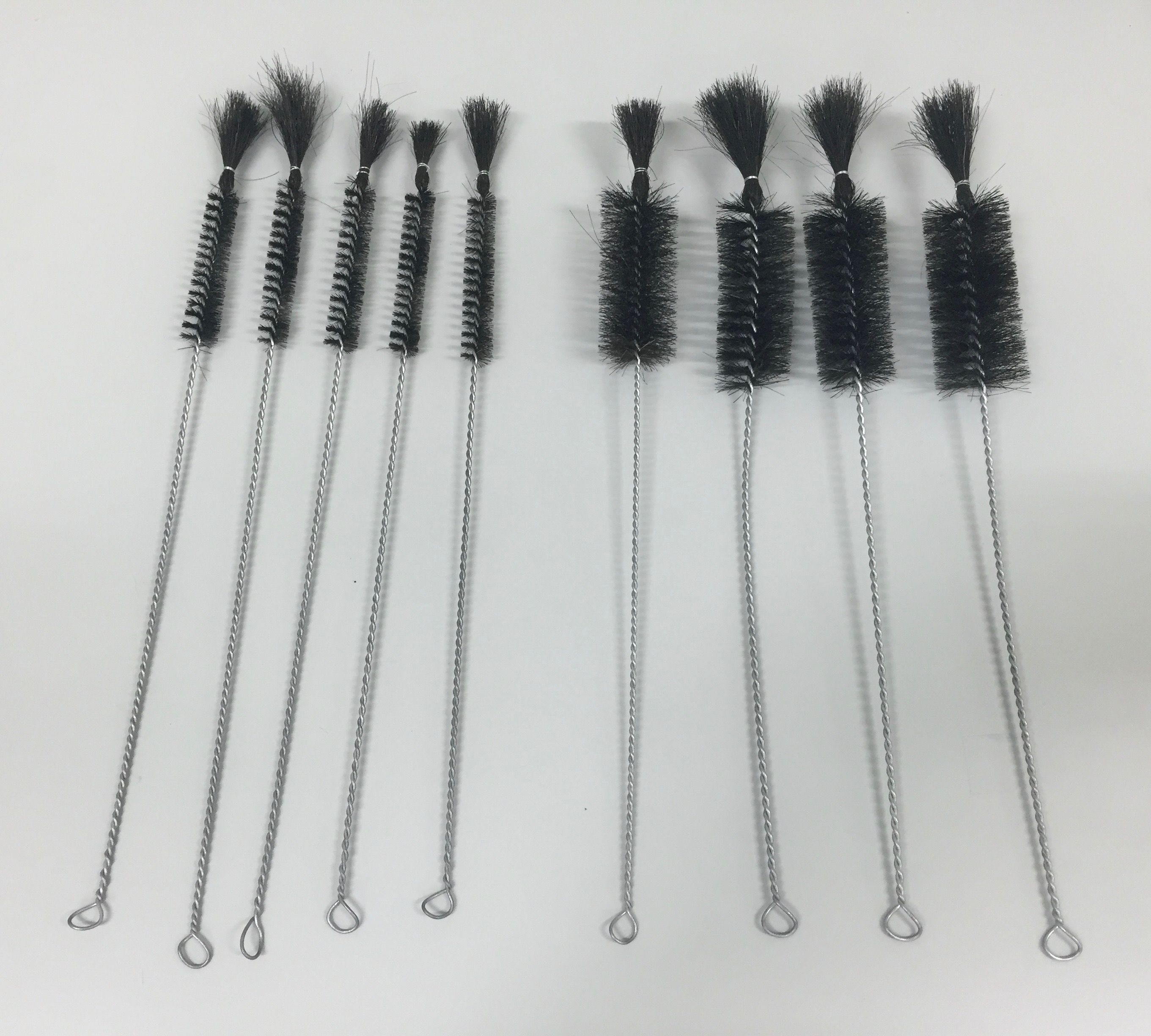 Test tube brushes in two distinct sizes, small and large.